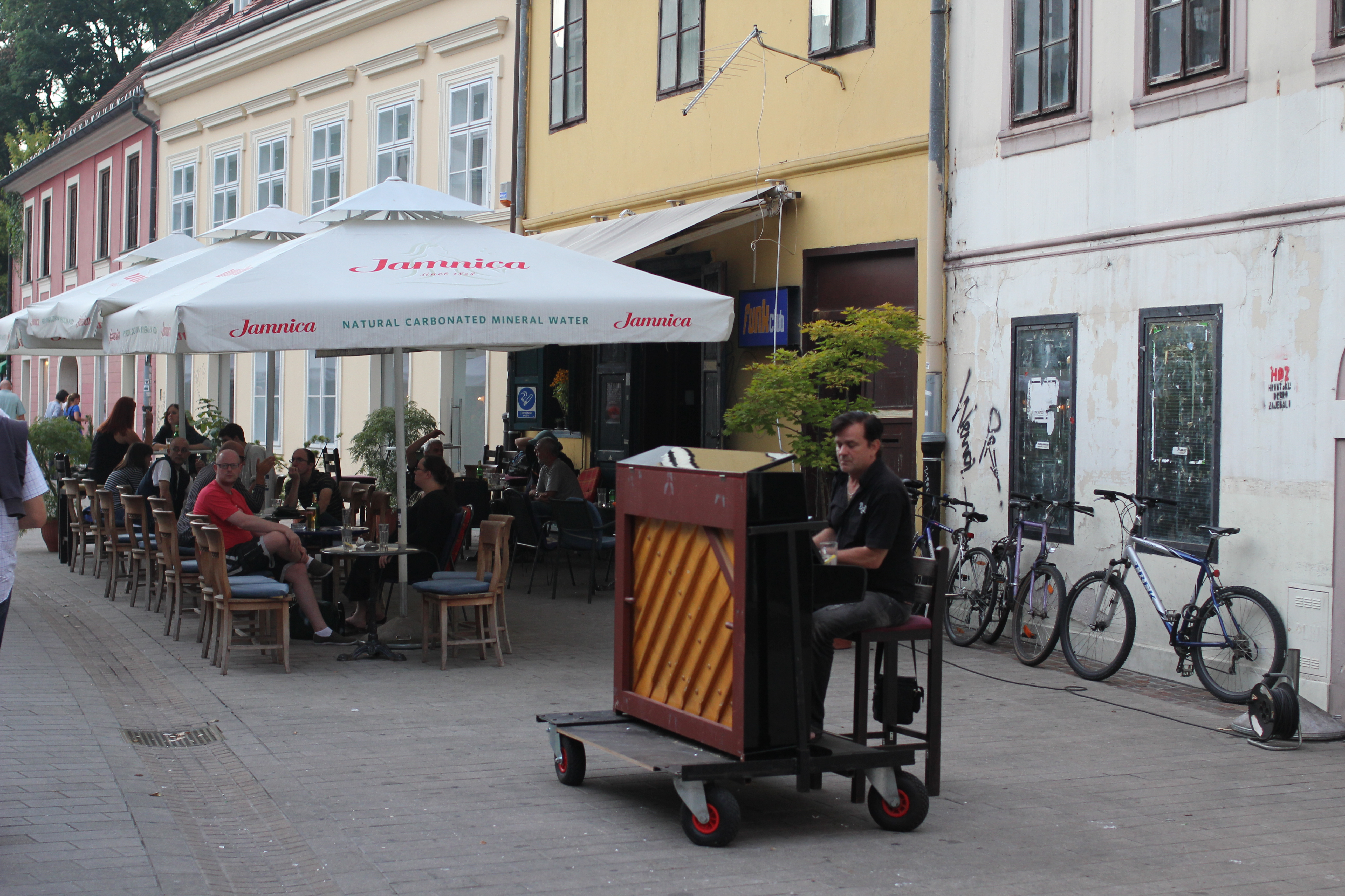 Street piano in the Tkalčićeva street.